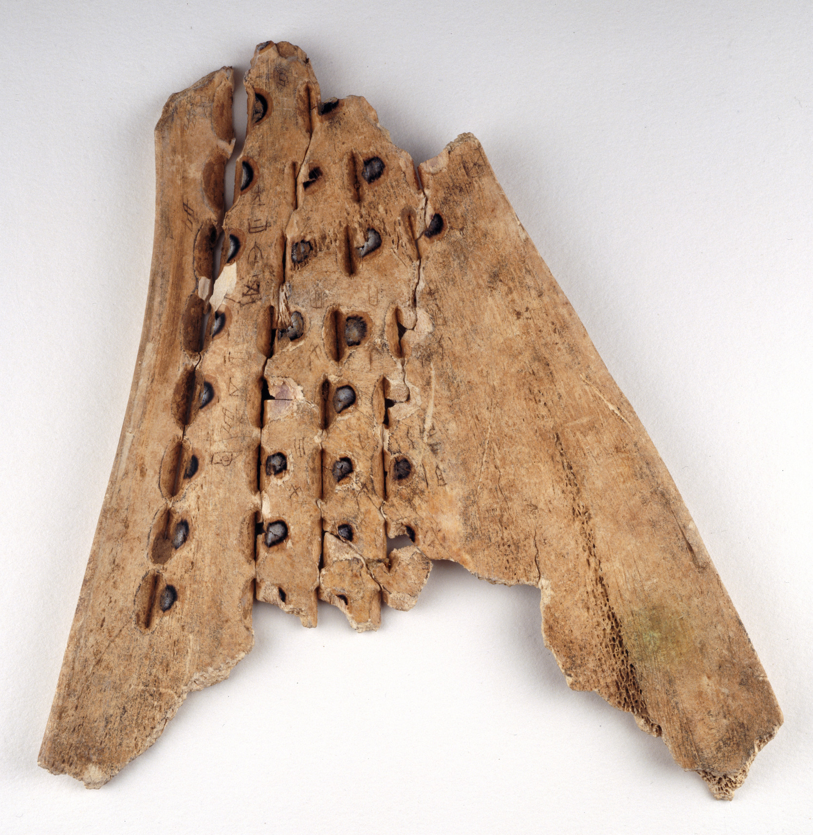 Chinese oracle bone Diviners of the Shang dynasty (16th-10th centuries B.C.) produced oracles by reading cracks on ox bones. Such bones bear the earliest writing known in China. The pit marks were produced by a hot poker.